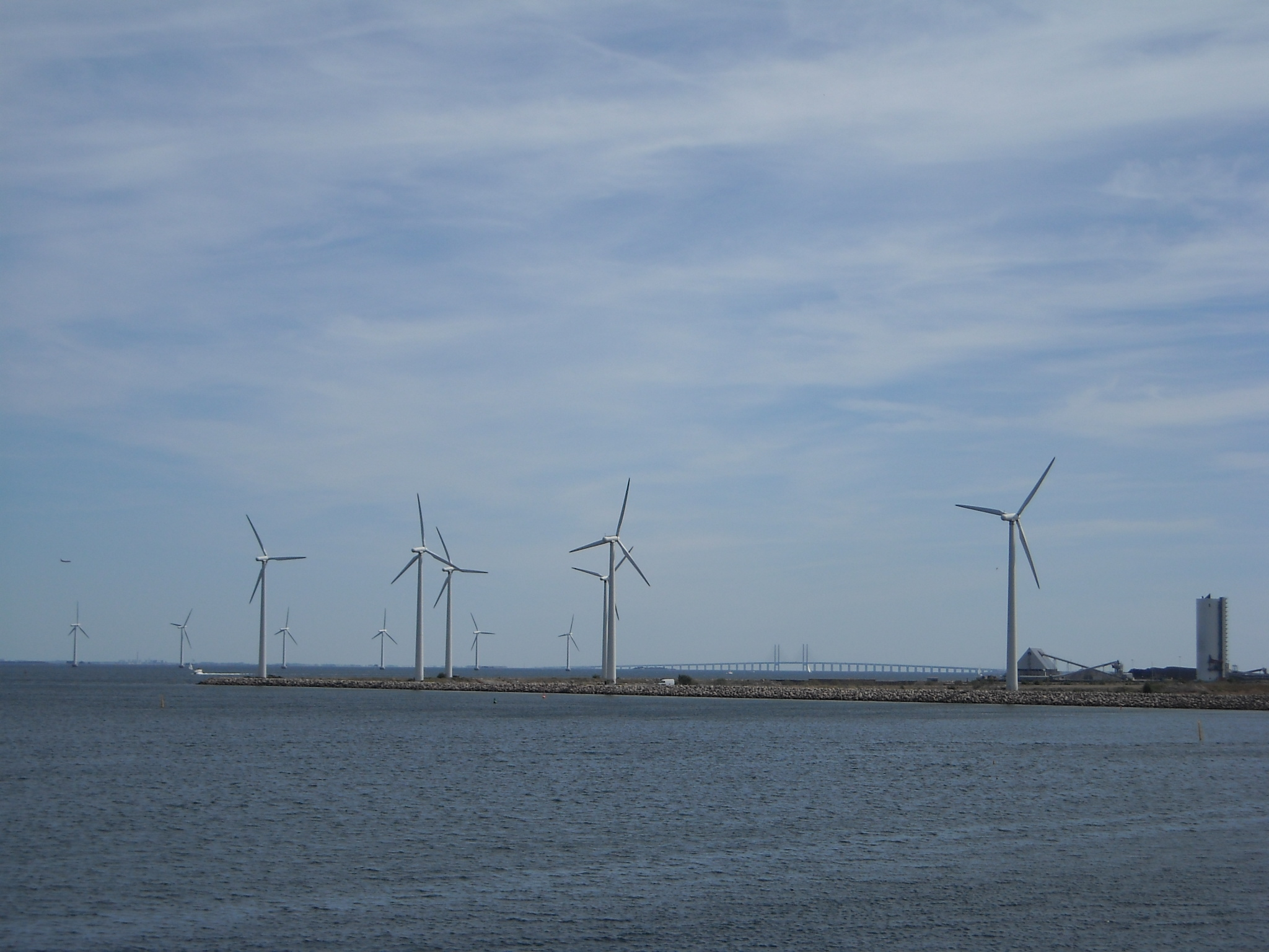 Windmills at Refshaleøen in Copenhagen harbour, Denmark, photographed from Trekroner fortress. Oresund bridge in background.